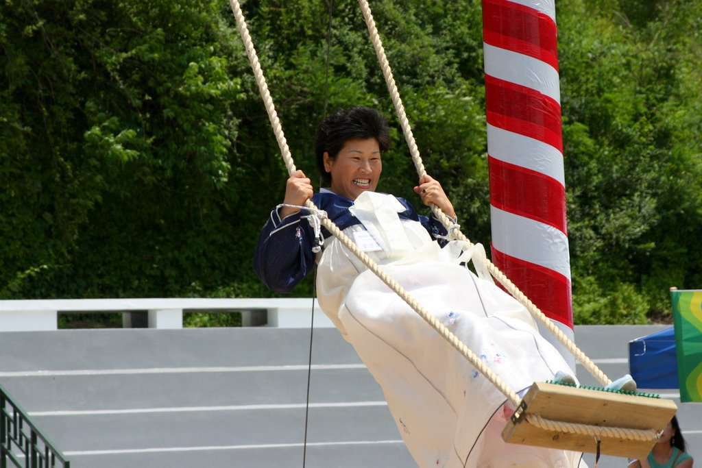 "The 5th Women Folk Plays for Dano Festival" held in a yard of the Andong Folk Museum in Andong City, Gyeongsangbuk-do, South Korea on June 11, 2007.